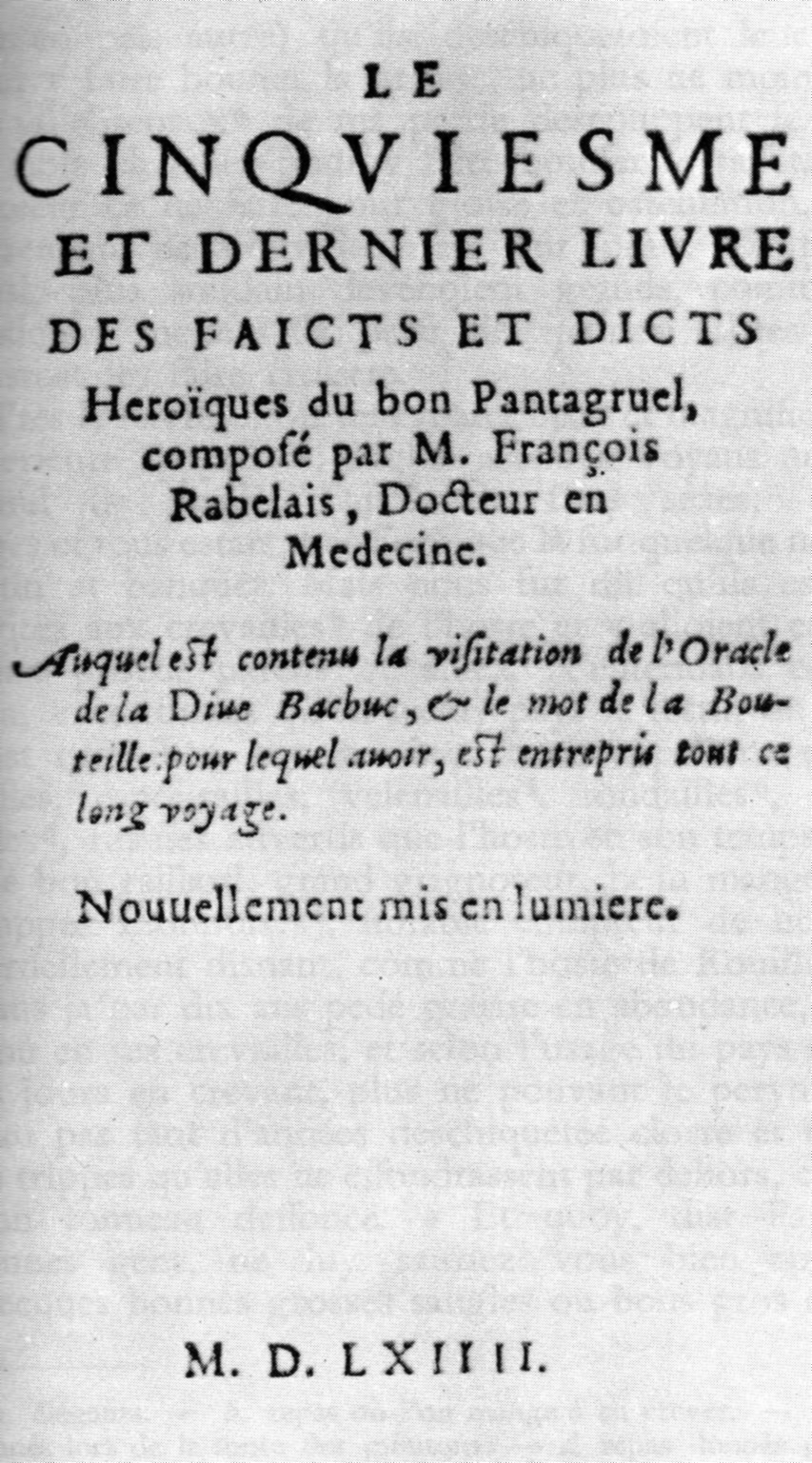 Title page of first complete edition of Rabelais's "Le cinquiesme livre"